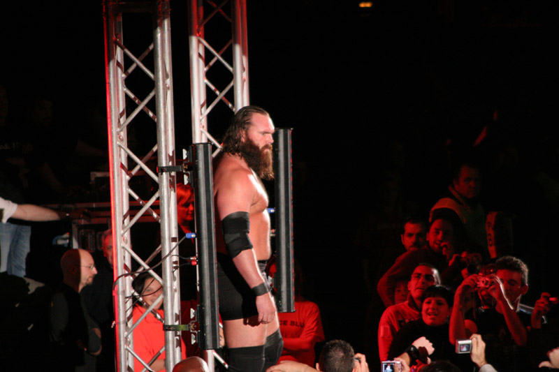 Mike Knox in Milan,Italy